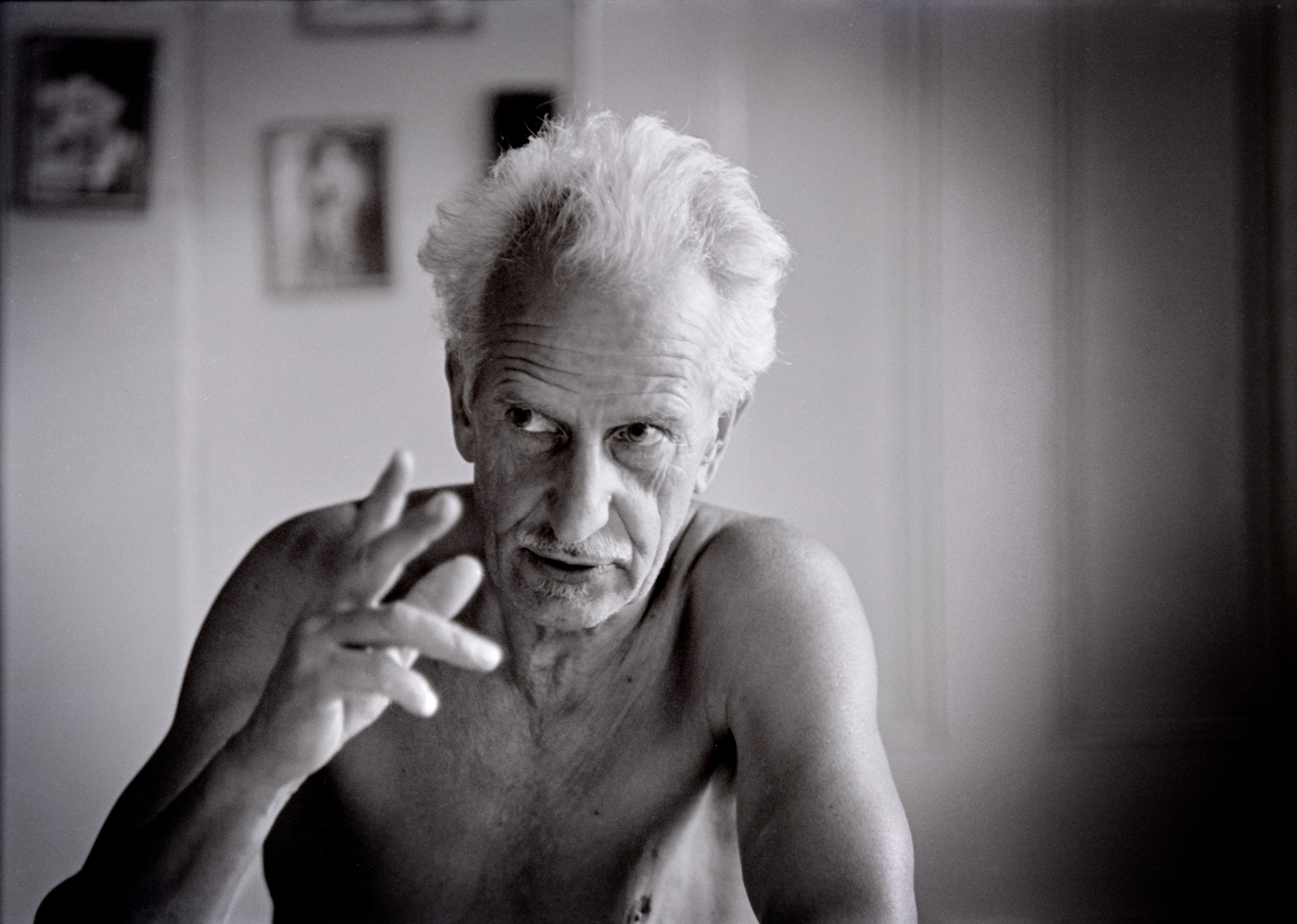 This is a portrait of Percy Cerutty made by James Brian McArdle for 'Walkabout' magazine on 14 January 1961